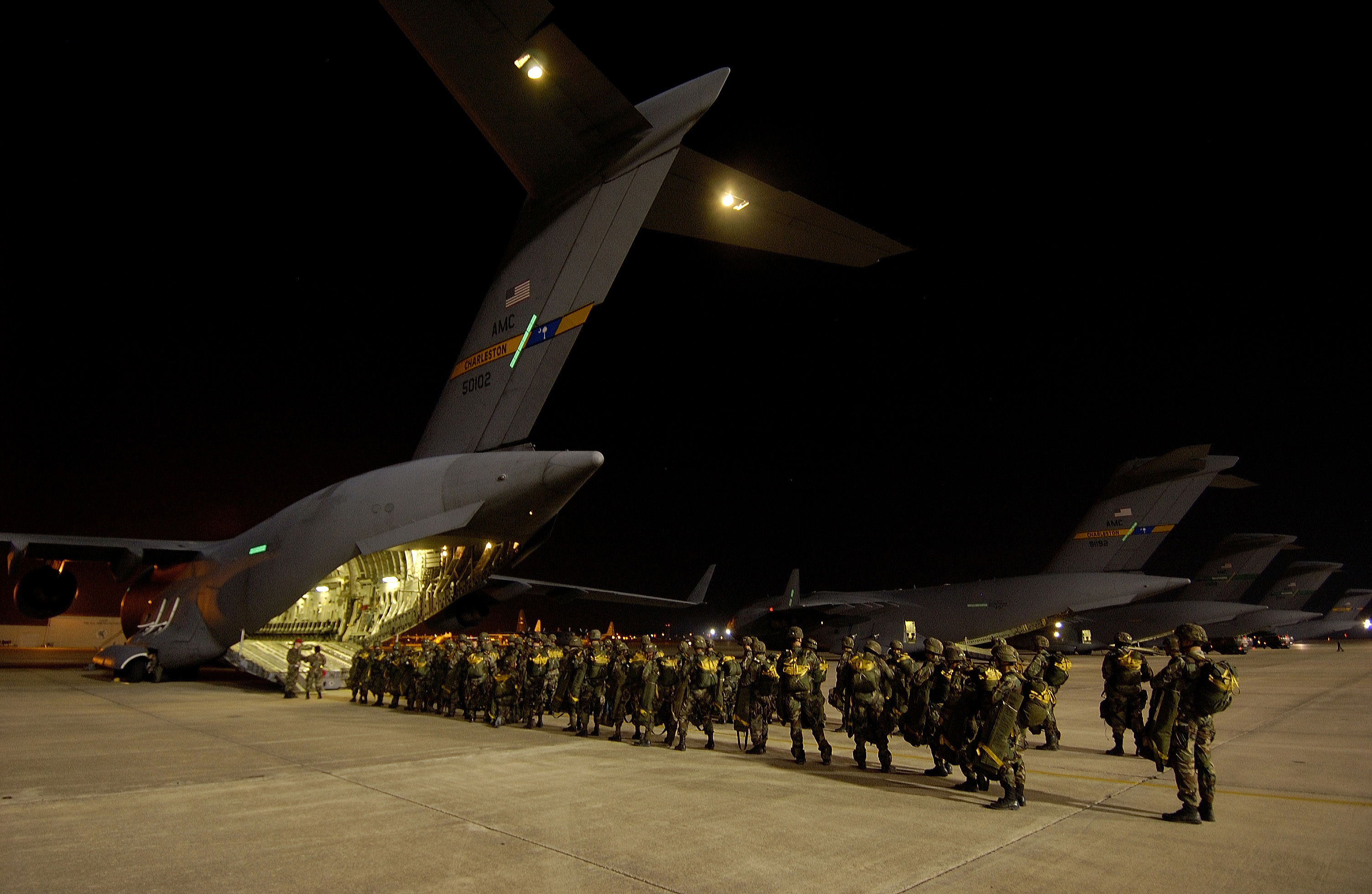 U.S. Army Paratroopers from the 82nd Airborne Division, Fort Bragg, N.C., line up to board an Air Force C-17 Globemaster III aircraft on the flight line at Pope Air Force Base, N.C., on Aug. 24, 2005. The paratroopers and the aircraft are training as part of Exercise Joint Forcible Entry.